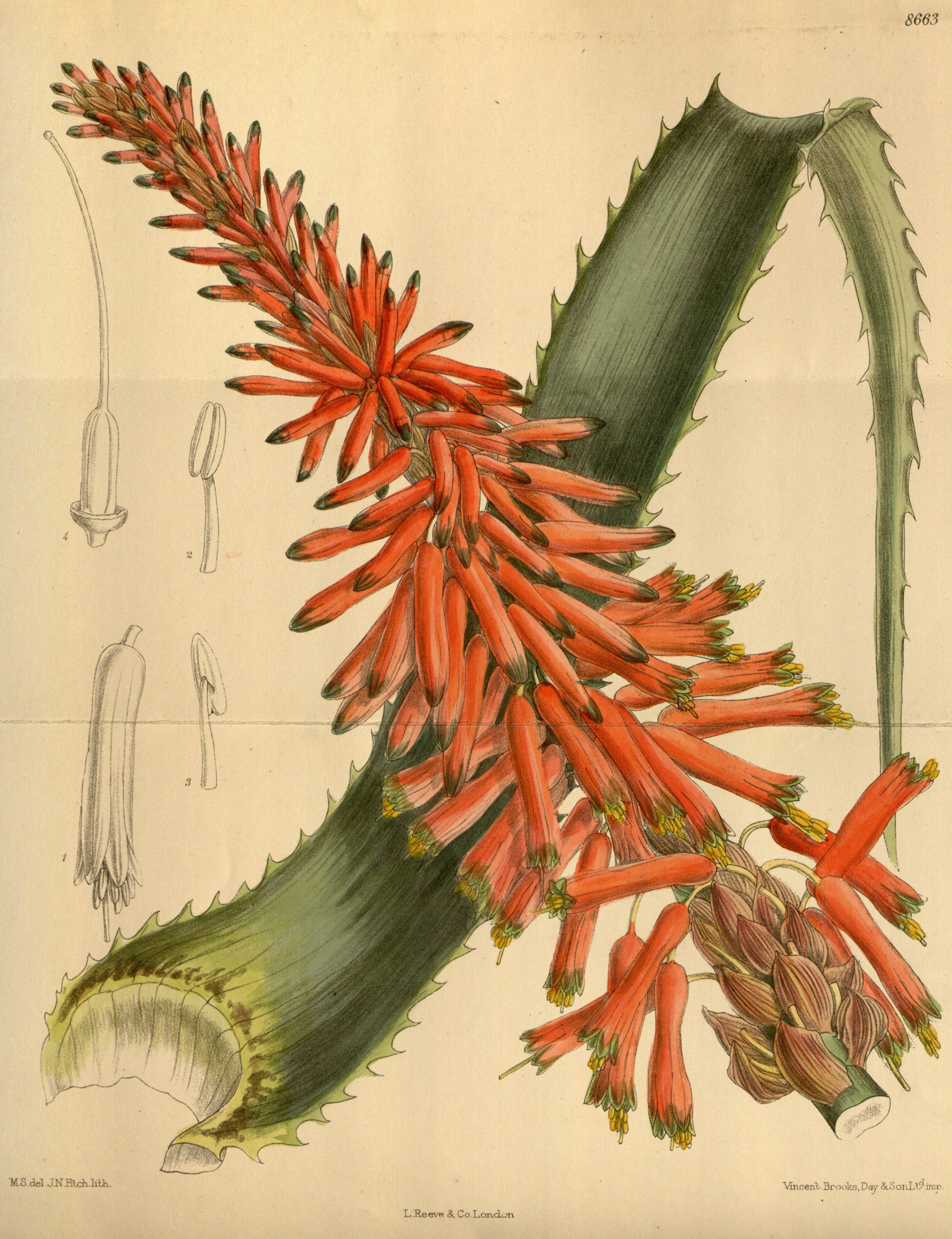 Aloe arborescens var. natalensis, Xanthorrhoeaceae